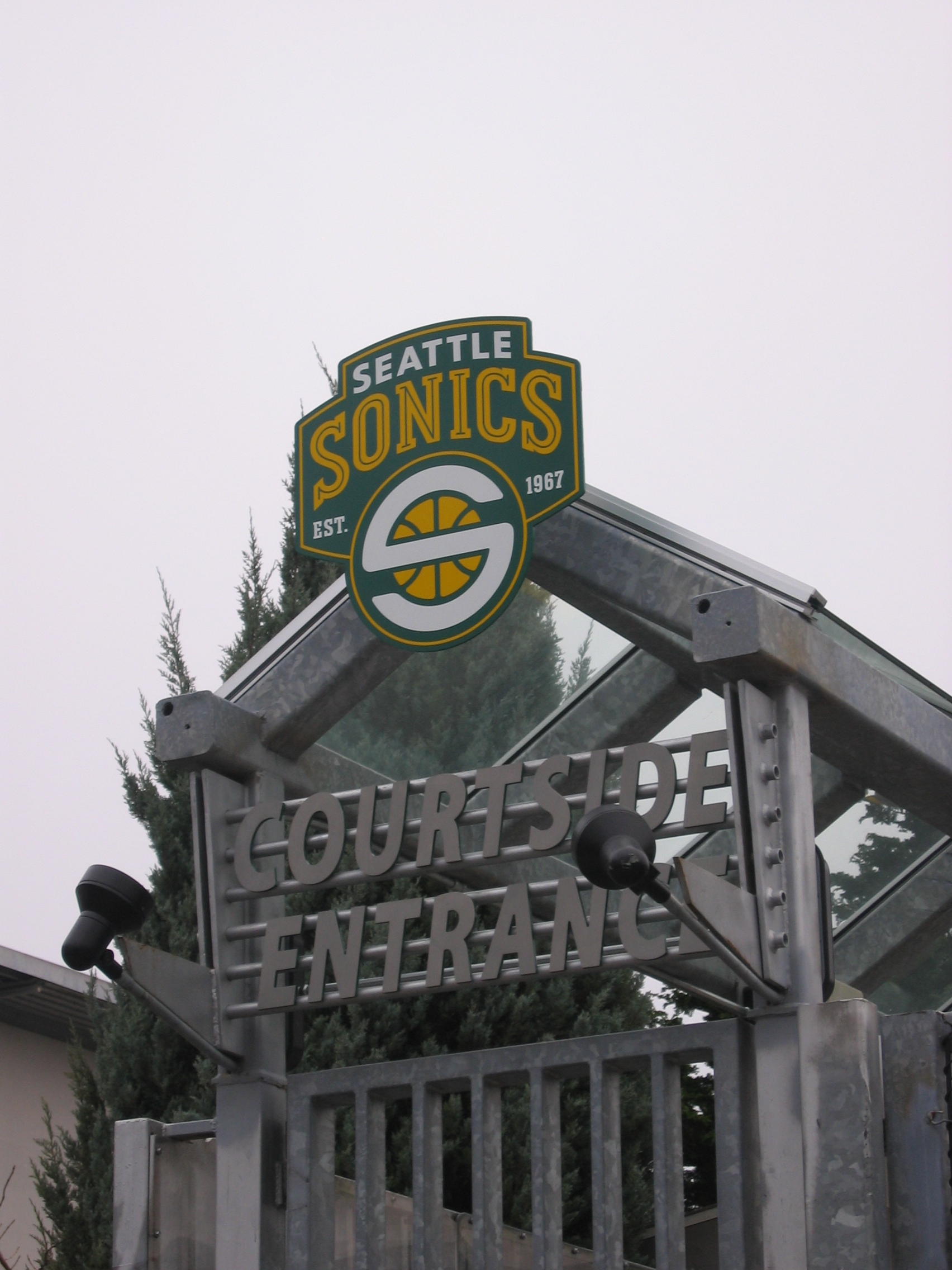 Seattle Sonics